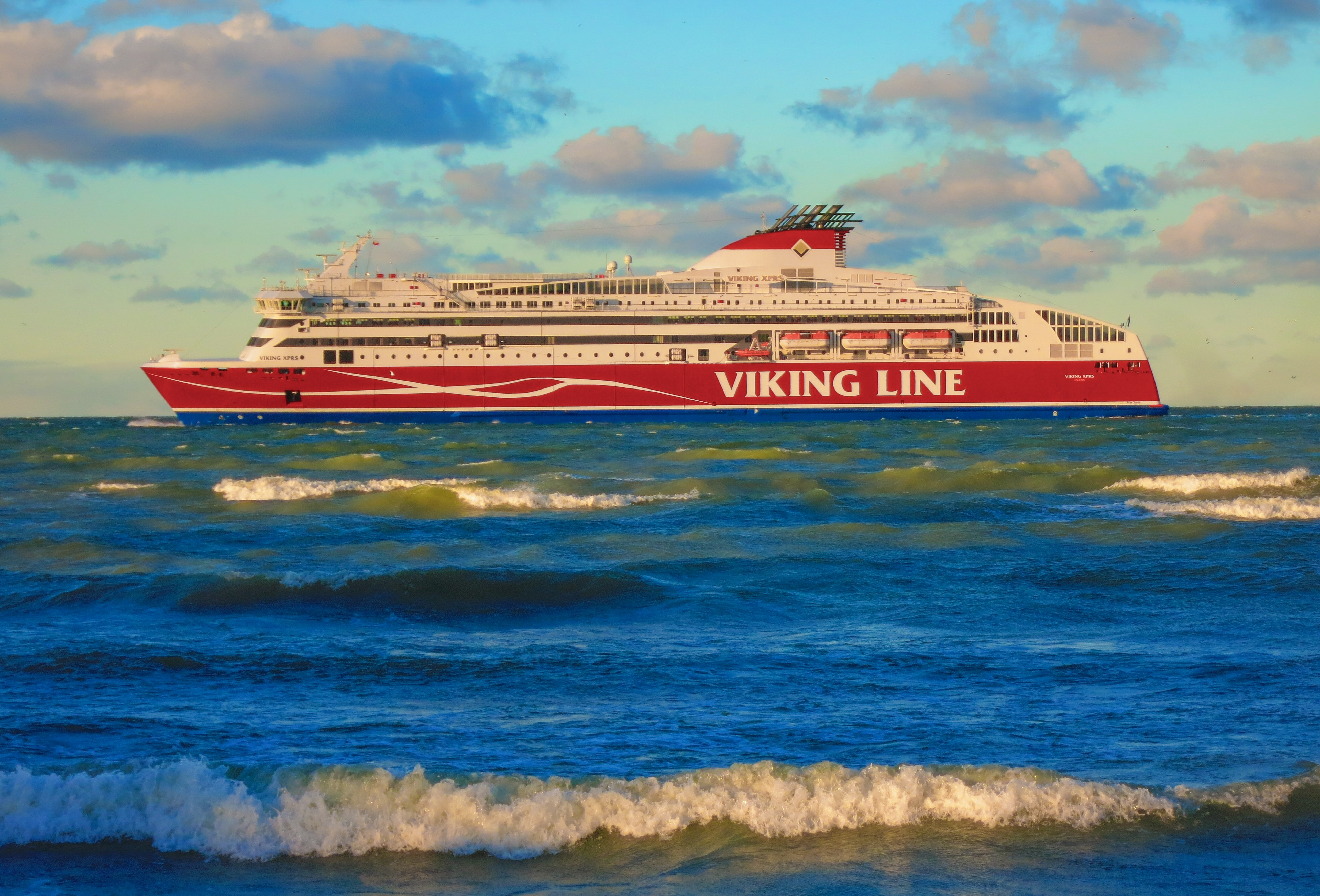 Ferry Viking XPRS on Tallinn Bay (Estonia)